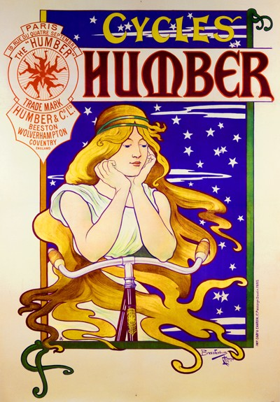 Advertising poster for Cycles Humber in Paris (c. 1898-1905)